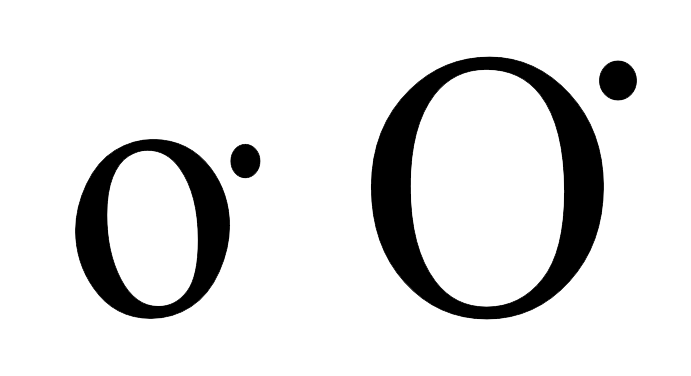 The Peh-oe-ji letter o͘